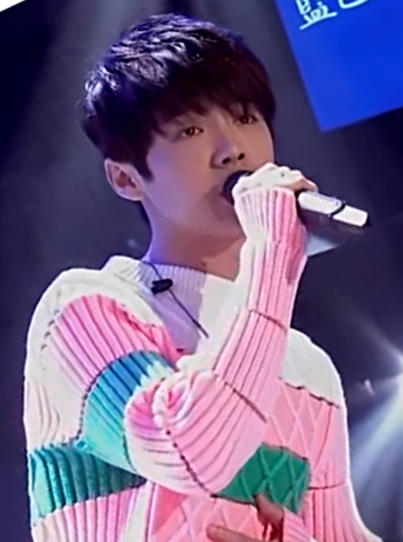 Lu Han performing "Our Tomorrow" at Dream Star Partner on January 2, 2015.